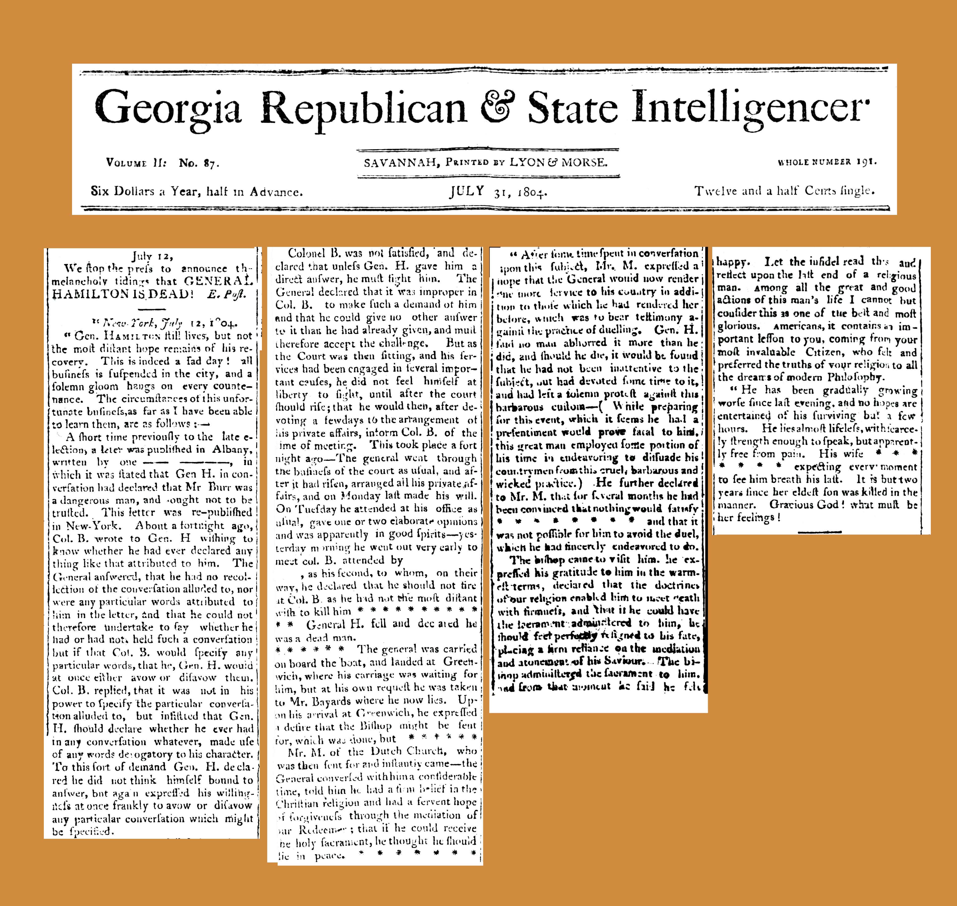 Newspaper article describing the 11 July 1804 duel between Alexander Hamilton and Aaron Burr (Georgia Republican & State Intelligencer, Savannah, Georgia, U.S., 31 July 1804) Uploader digitally "cut and pasted" original newspaper text, which was originally spread across in two columns, not suitable for Wikipedia articles.